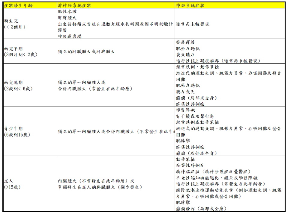 不同發病的年齡所表現出不同的NPC臨床症狀